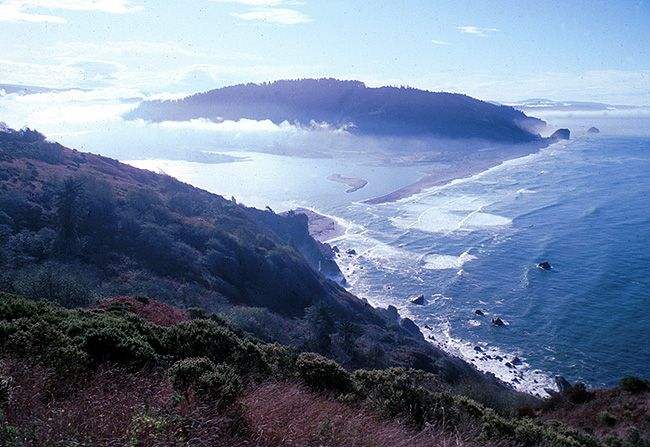 Estuary of the Klamath River — in Redwood National Park, California.